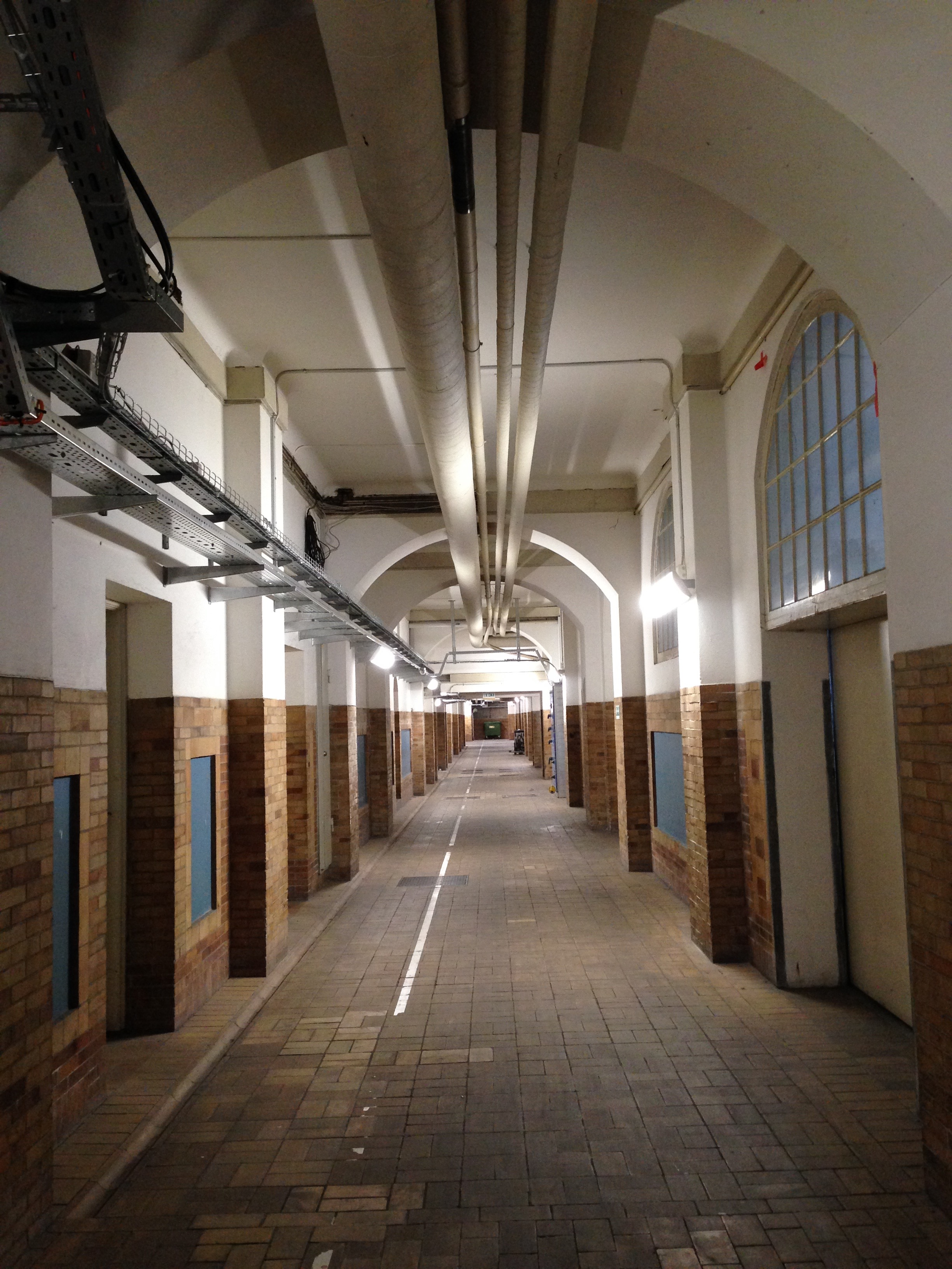 WikiWednesday: Wikipedians tour Bispebjerg Hospital grounds, 6 May 2015